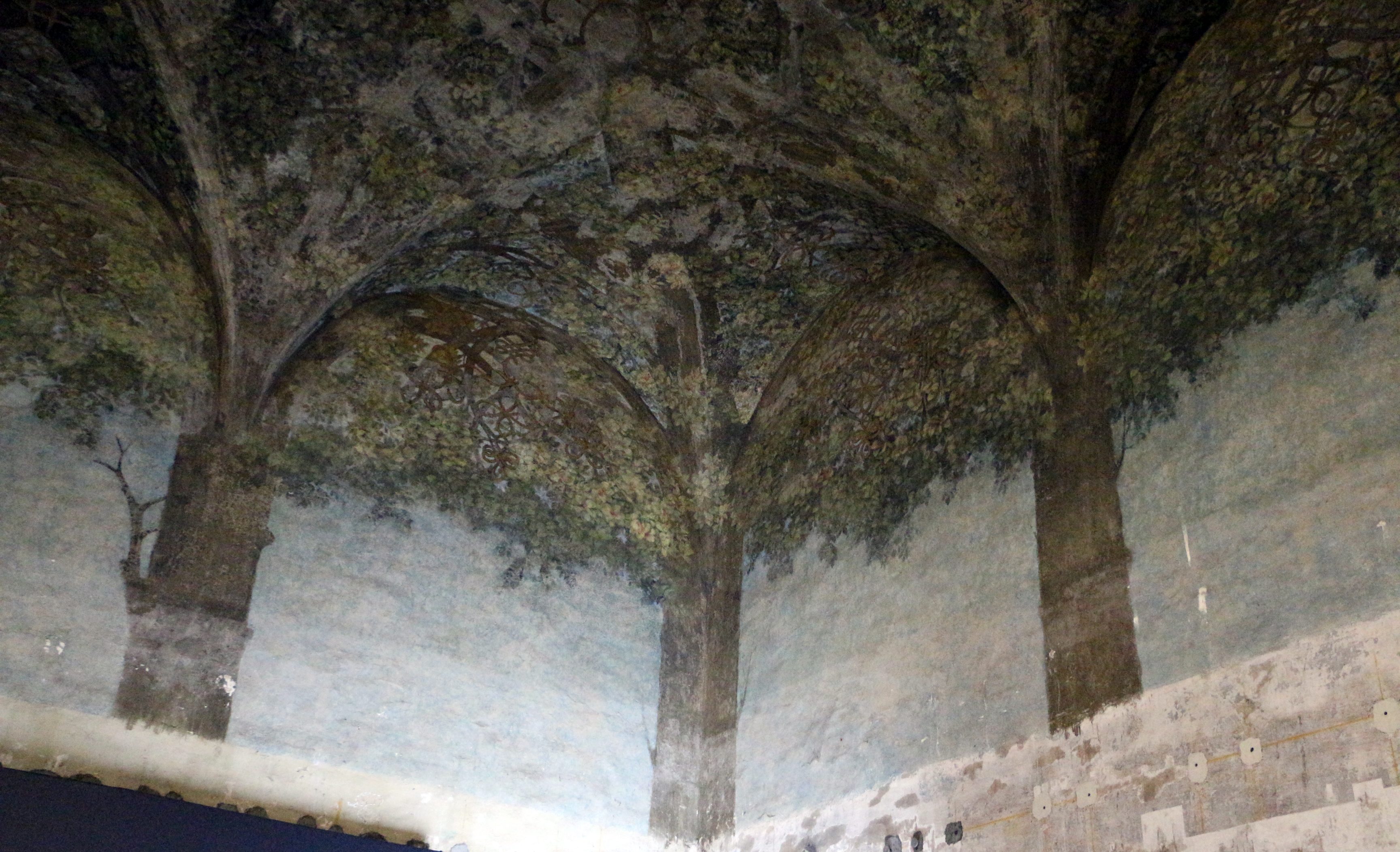 Sala delle Asse